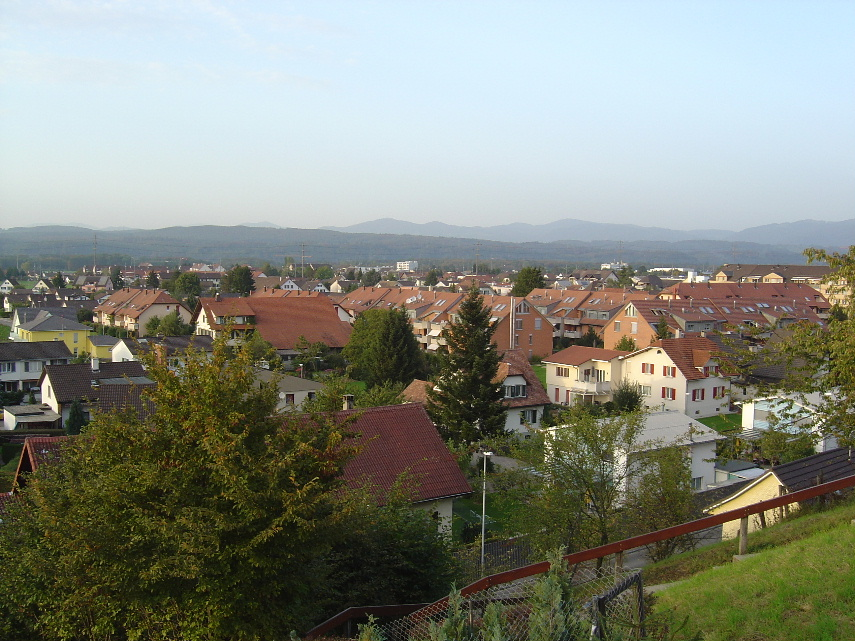 View of the northwestern part of Möhlin